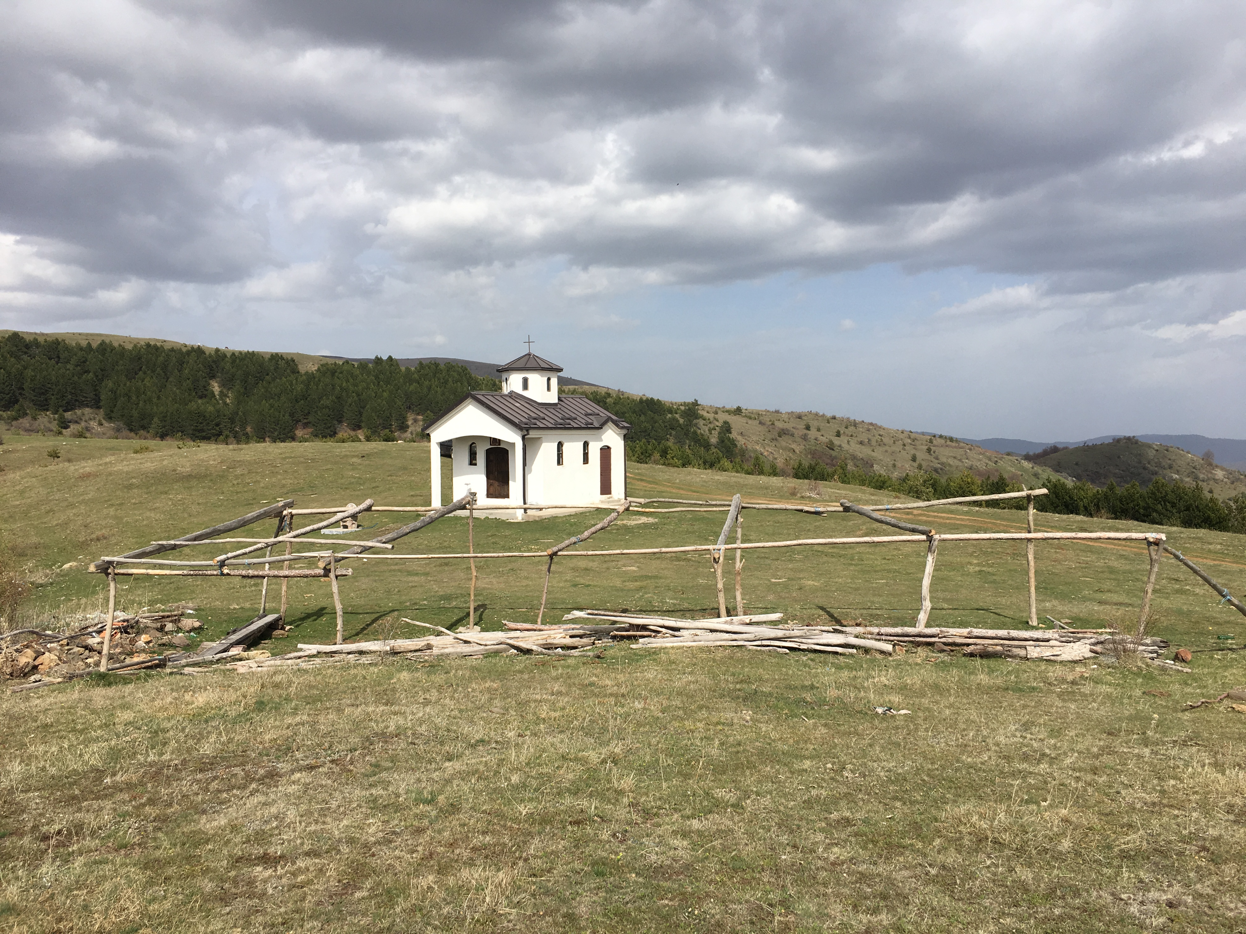 St. Petka Church near the village of Luke